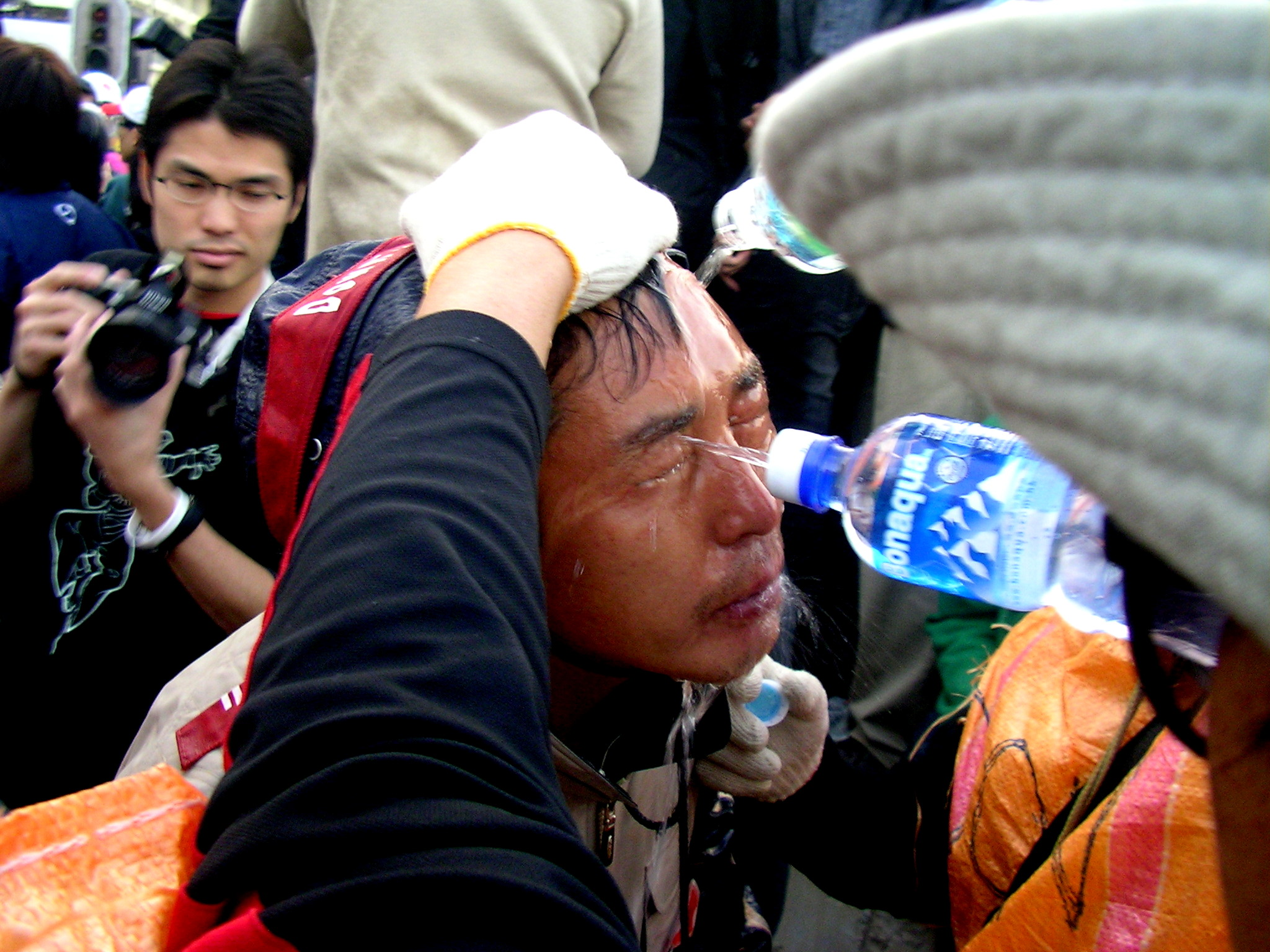 Protesters was helping who suffering OC spray. (WTO Protest of HK in 2005)